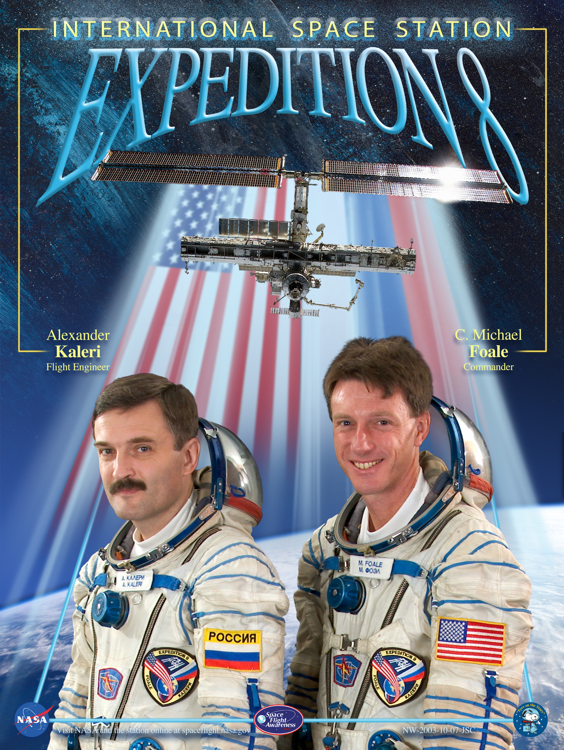 Expedition 8 NASA Space Flight Awareness mission poster